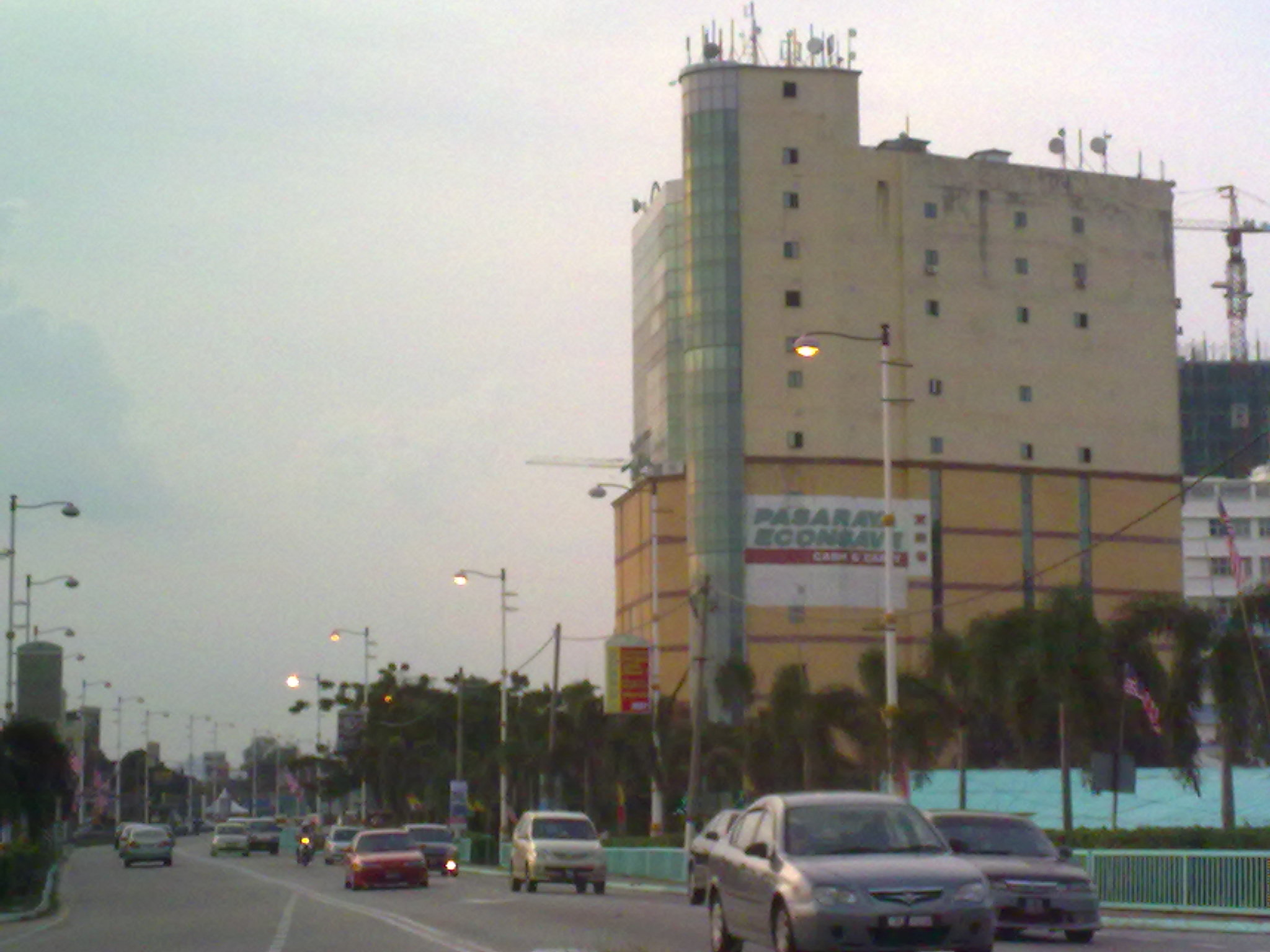 Econsave Kajang